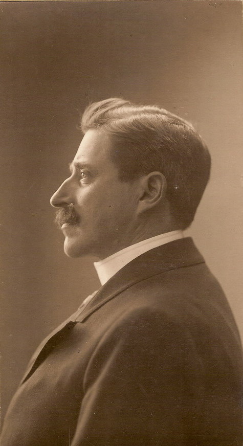 Verner von Heidenstam (1859-1940), Swedish writer and Nobel Prize laureate.